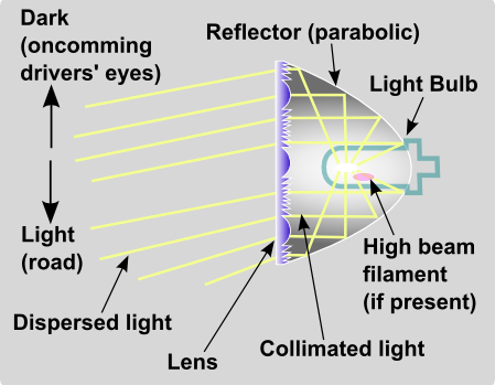 Headlight schematic, lens optics, side view